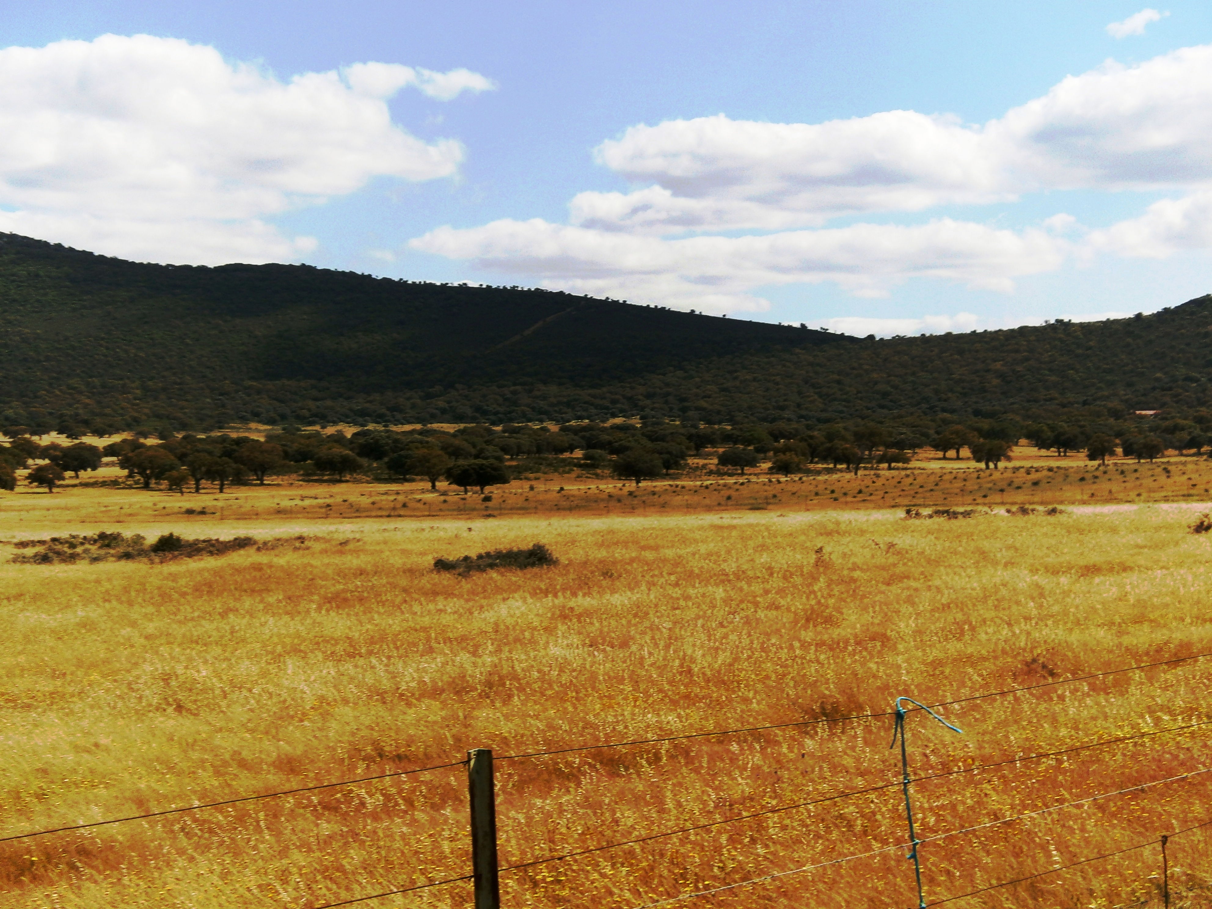 CC-Estrib-Sierra San Pedro